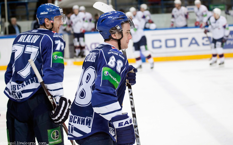 KHL game HC Sibir Novosibirsk vs. Amur Khabarovsk on December 4, 2011. Amur forward Jakub Petružálek (at center) just after scoring game-winning goal in overtime. At left his teammate Ilshat Bilalov.